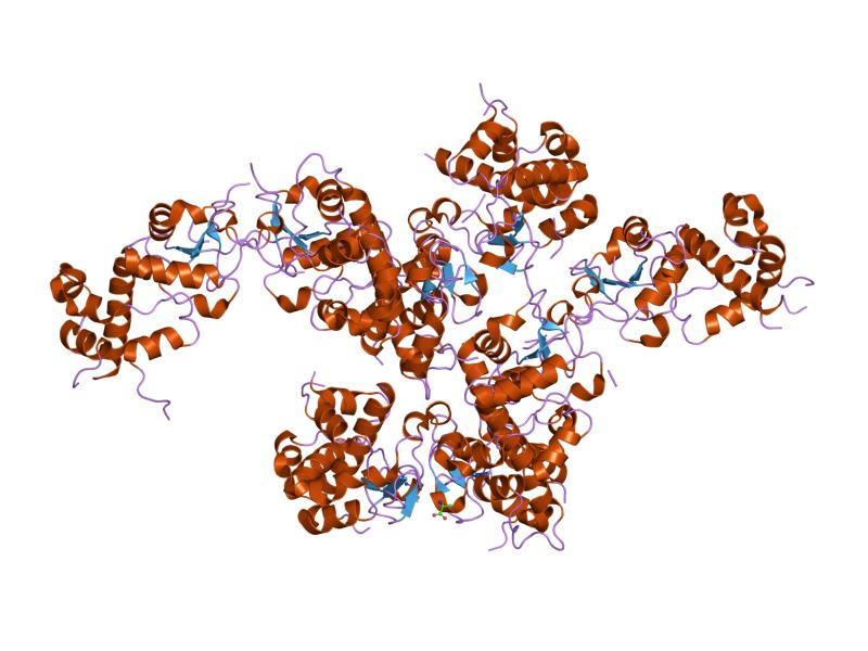 Cartoon representation of the molecular structure of protein registered with 1rqf code.